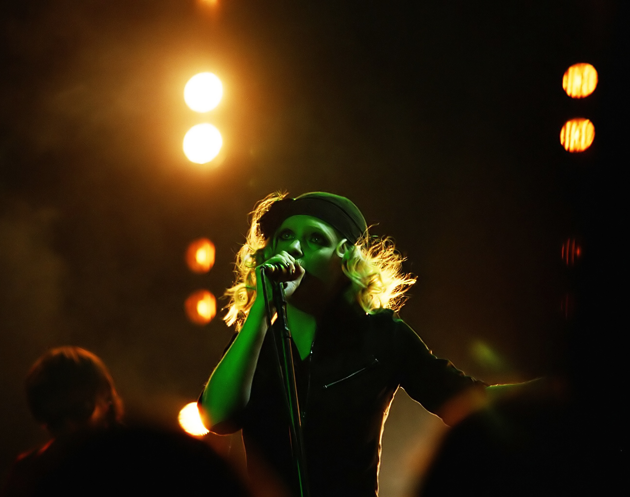 Alison Goldfrapp performing live in Cambridge, 2005